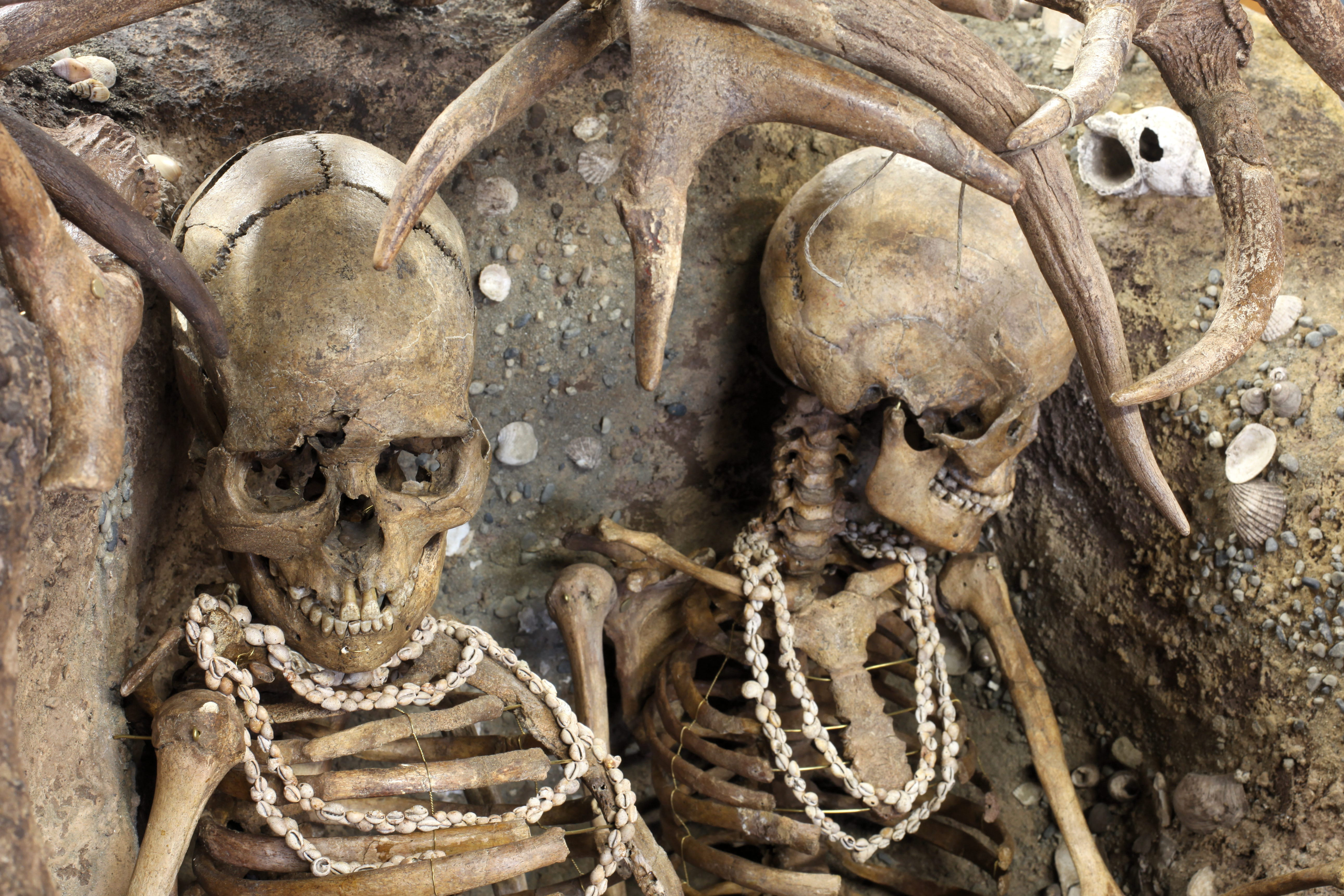 Reconstitution of a prehistoric tomb. Two women in their twenties or early thirties, both featuring traumatic injuries to the skull. One believed to have been buried while still alive. Characteristic floor covered with shellfishes and antler roof.